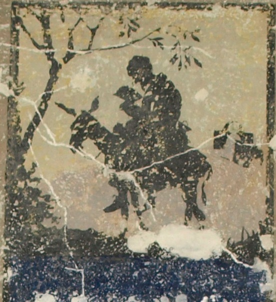 Mural. A prayer near Rachel Tomb, a wall painting before restoration at Shiff House in Tel Aviv